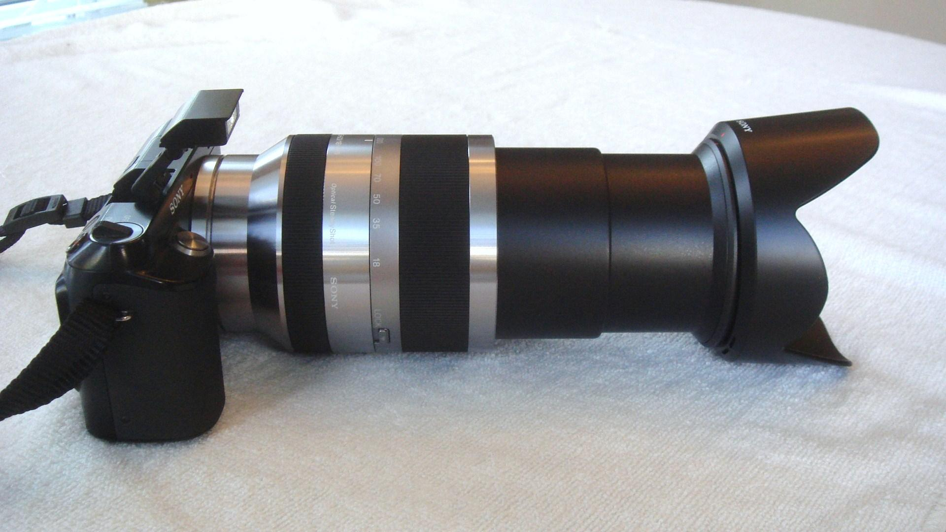 Sony E 18-200 mm F3.5-6.3 OSS (SEL18200)